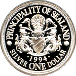 This is the sealand one dollar